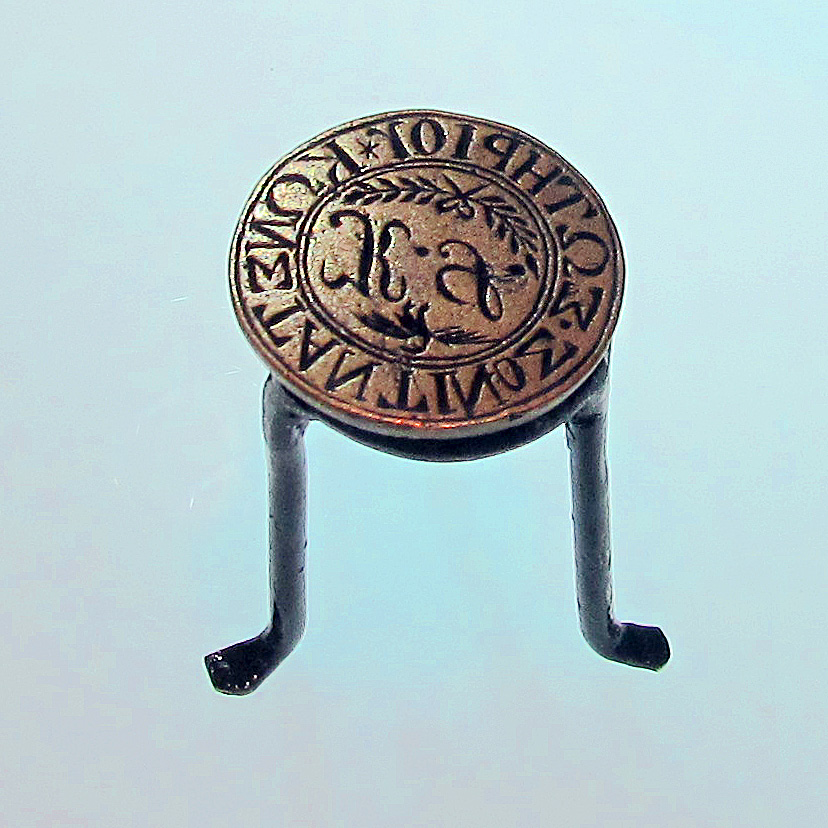 Constantine Ypsilantis seal, Historical Museum of Serbia